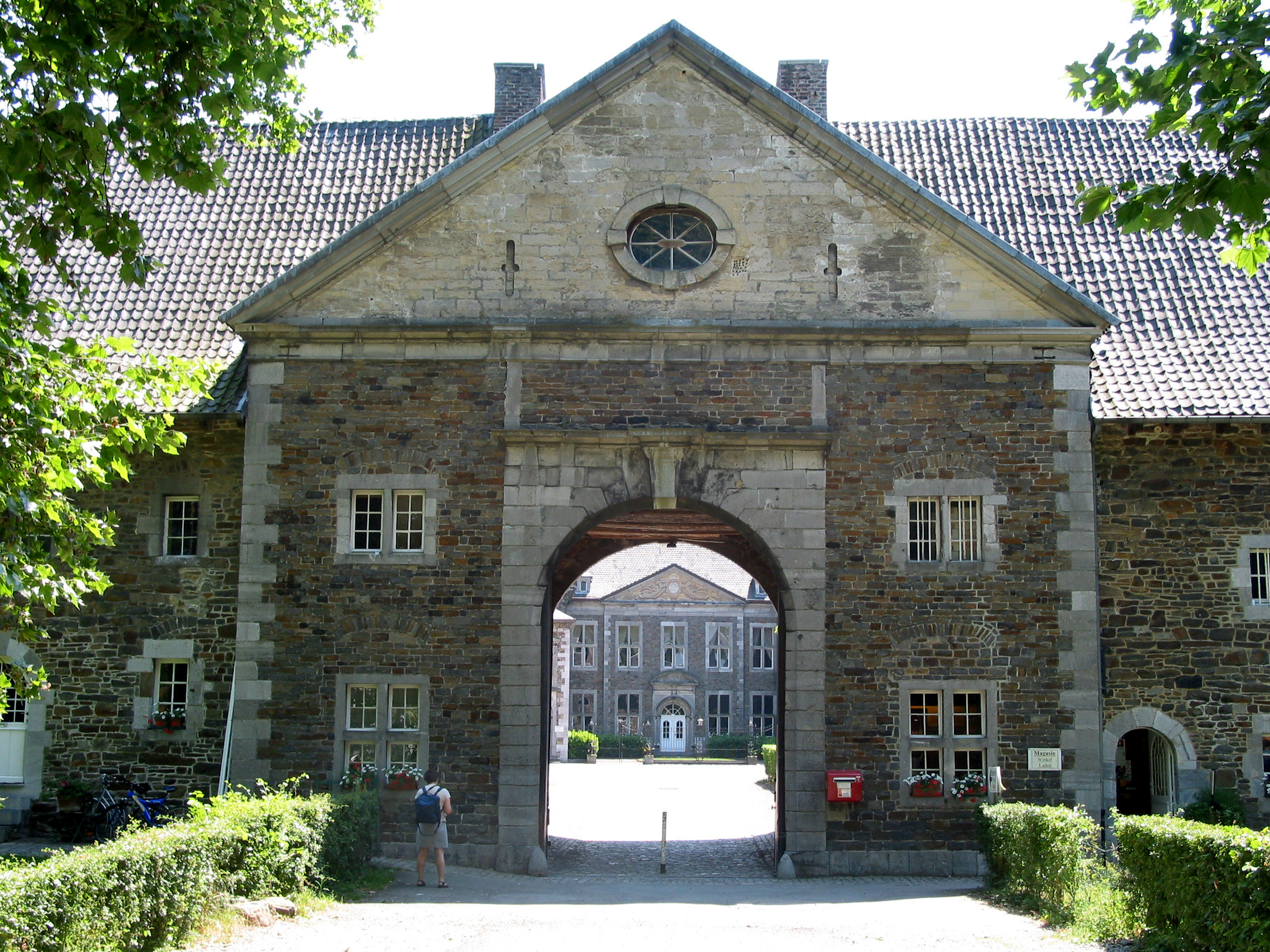 Aubel (Belgium), main entry of the « Val Dieu » abbey.